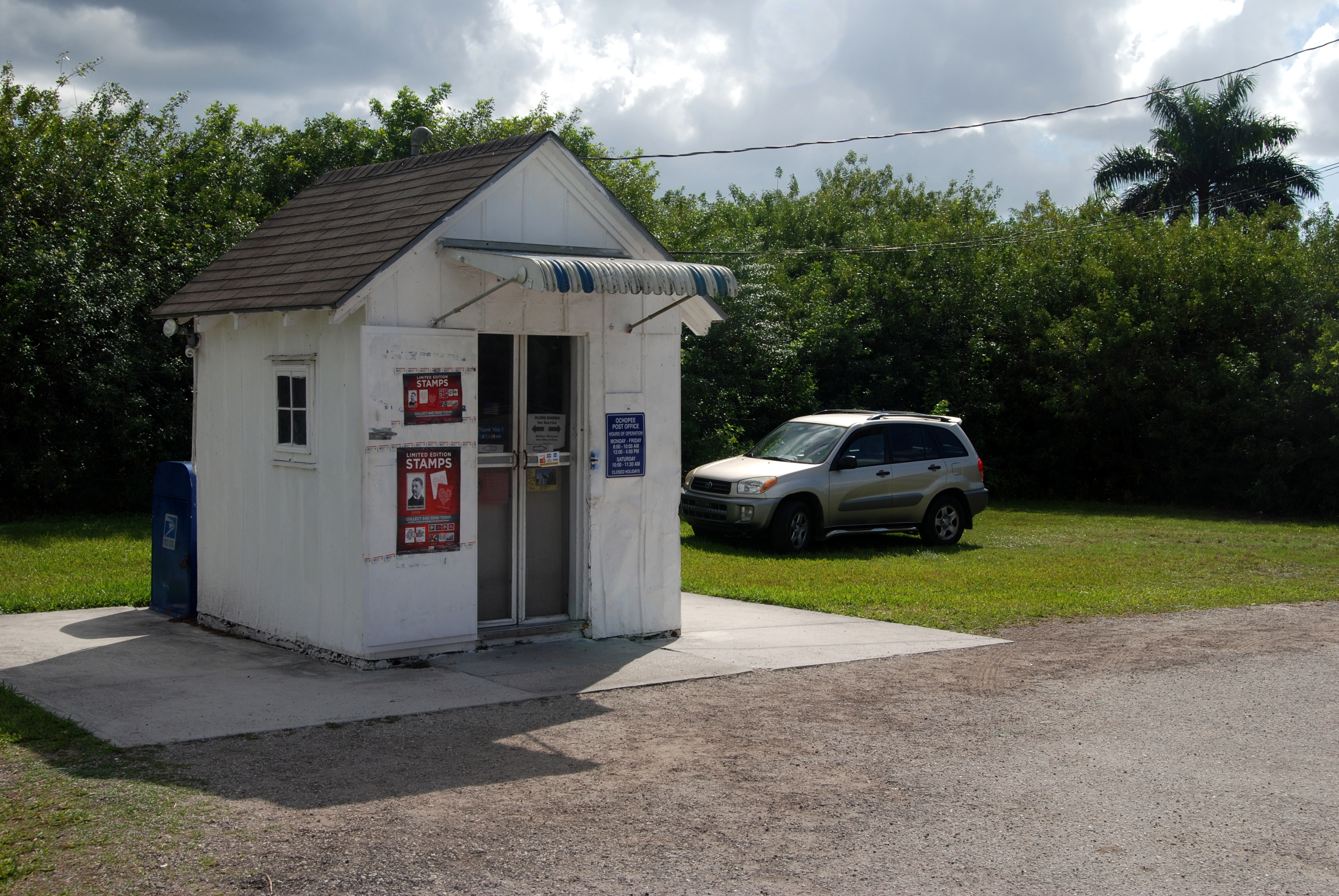 Smallest post office, Ochopee, Florida